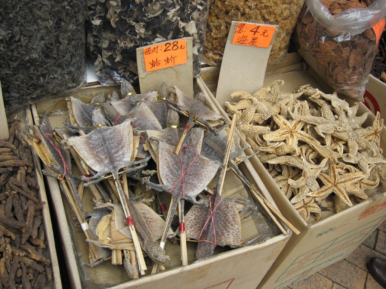 Dried Lizard and Starfish in Hong Kong